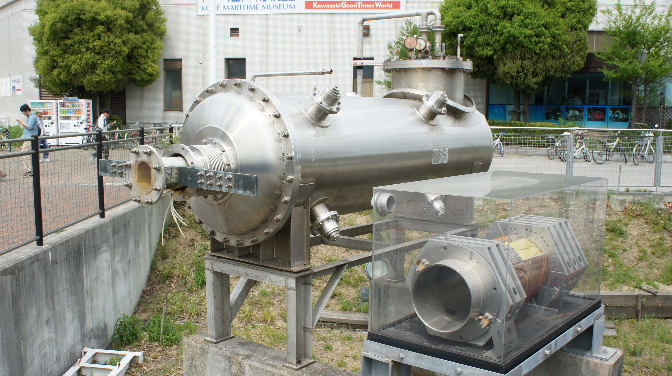 The 2nd prototype of MHD thruster.